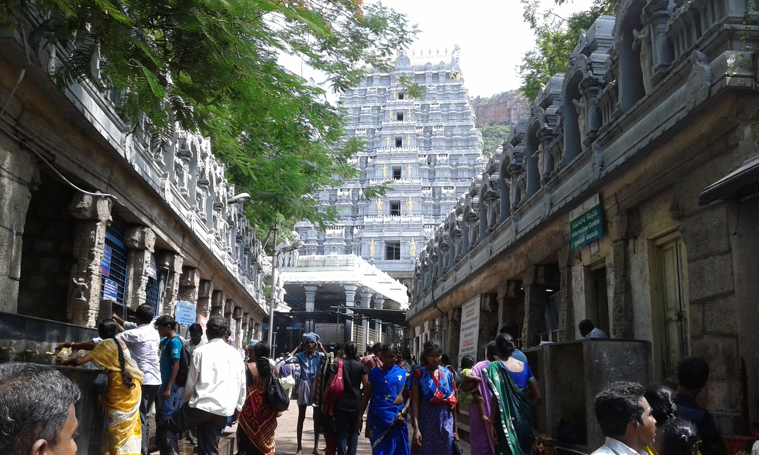 Gopuram at Alipiri Padala Madapam in Tirupati, Andhra Pradesh. Alipiri is the starting point of foot steps way(sopana margam) from Tirupati to Tirumala